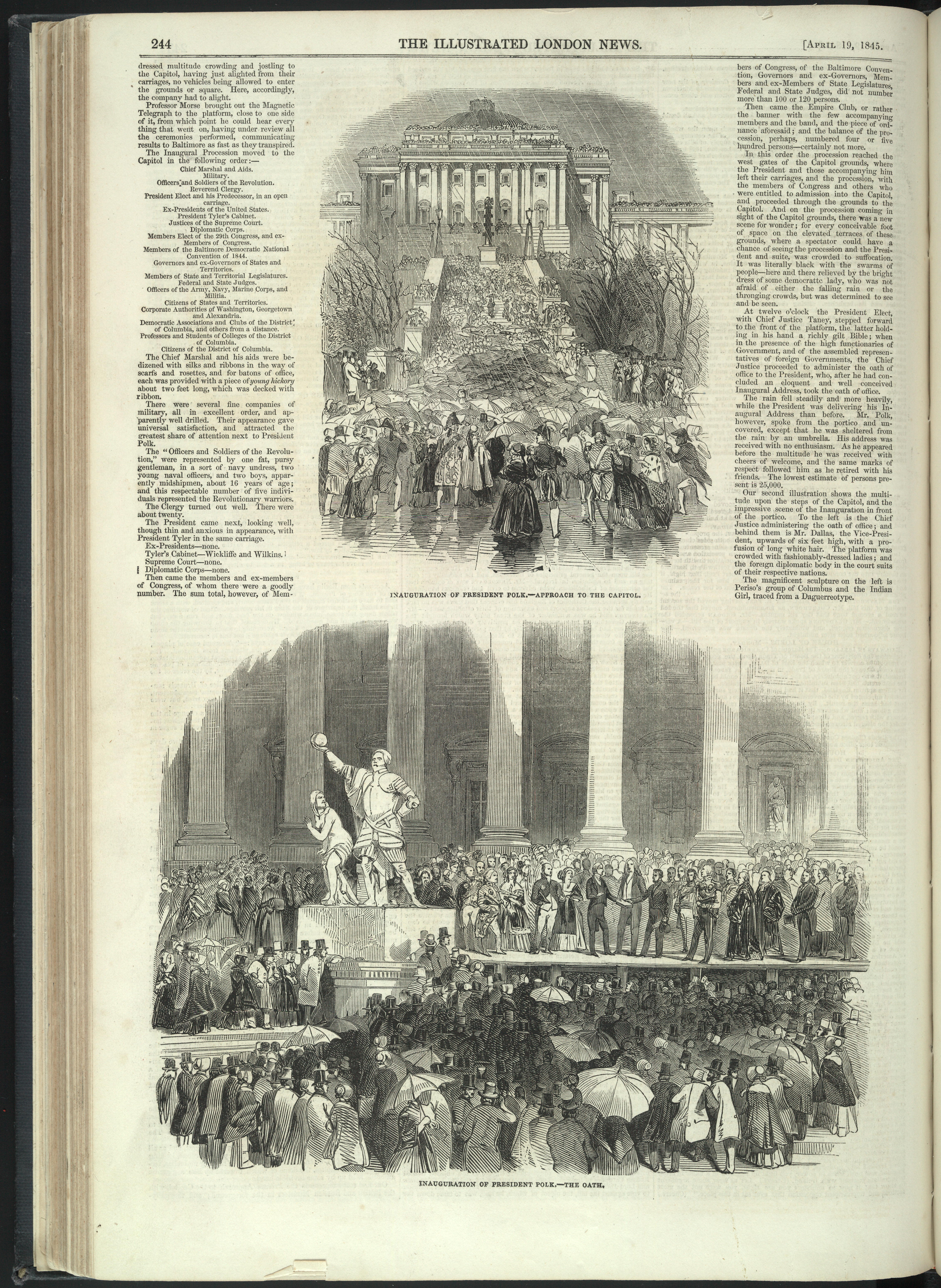 Scan of a page from the Illustrated London News, v. 6, April 19, 1845, with the first newspaper illustrations of an American presidential inauguration this being for James K. Polk on March 4, 1845.